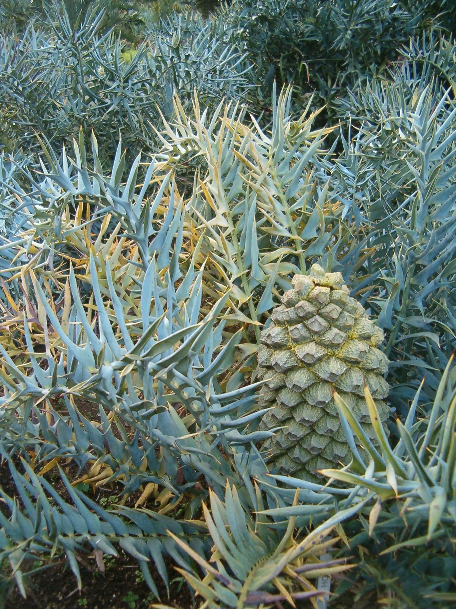 At Kirstenbosch National Botanical Gardens Genus: Encephalartos